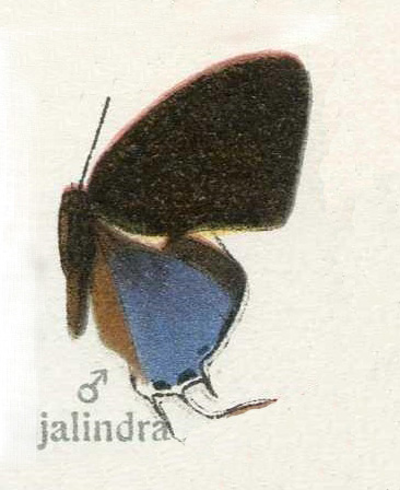 a species of Drupadia (Lepidoptera: Lycaenidae) erroneously cropped from Seitz with the caption for Rachana jalindra, a completely different species.